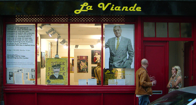 Licence on originating site: The opening night on 23 September 2005 of the Stuckist show, "Painting Is the Medium of Yesterday" — Paul Myners CBE, Chairman of Tate Gallery, Chairman of Marks and Spencer, Chairman of Aspen Insurance, Chairman of Guardian Media, Director of Bank of England, Director of Bank of New York. A Show of Paintings by the Stuckists, as Refused by the Tate Gallery. Guaranteed 100% Free of Elephant Dung., at La Viande galery, 3 Charlotte Road, Shoreditch, London (the former premises of the Stuckism International Gallery. The poster in the window is of Tate Chairman, Paul Myners, and the painting by Mark D. Paintings in the background are by Ella Guru. Outside the gallery David Beesley talks to gallery director, Ellen Cumber.